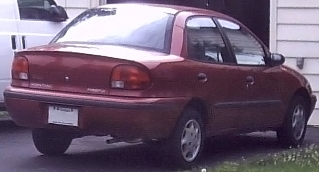 1995-2001 Pontiac Firefly photographed in Montreal, Quebec, Canada.